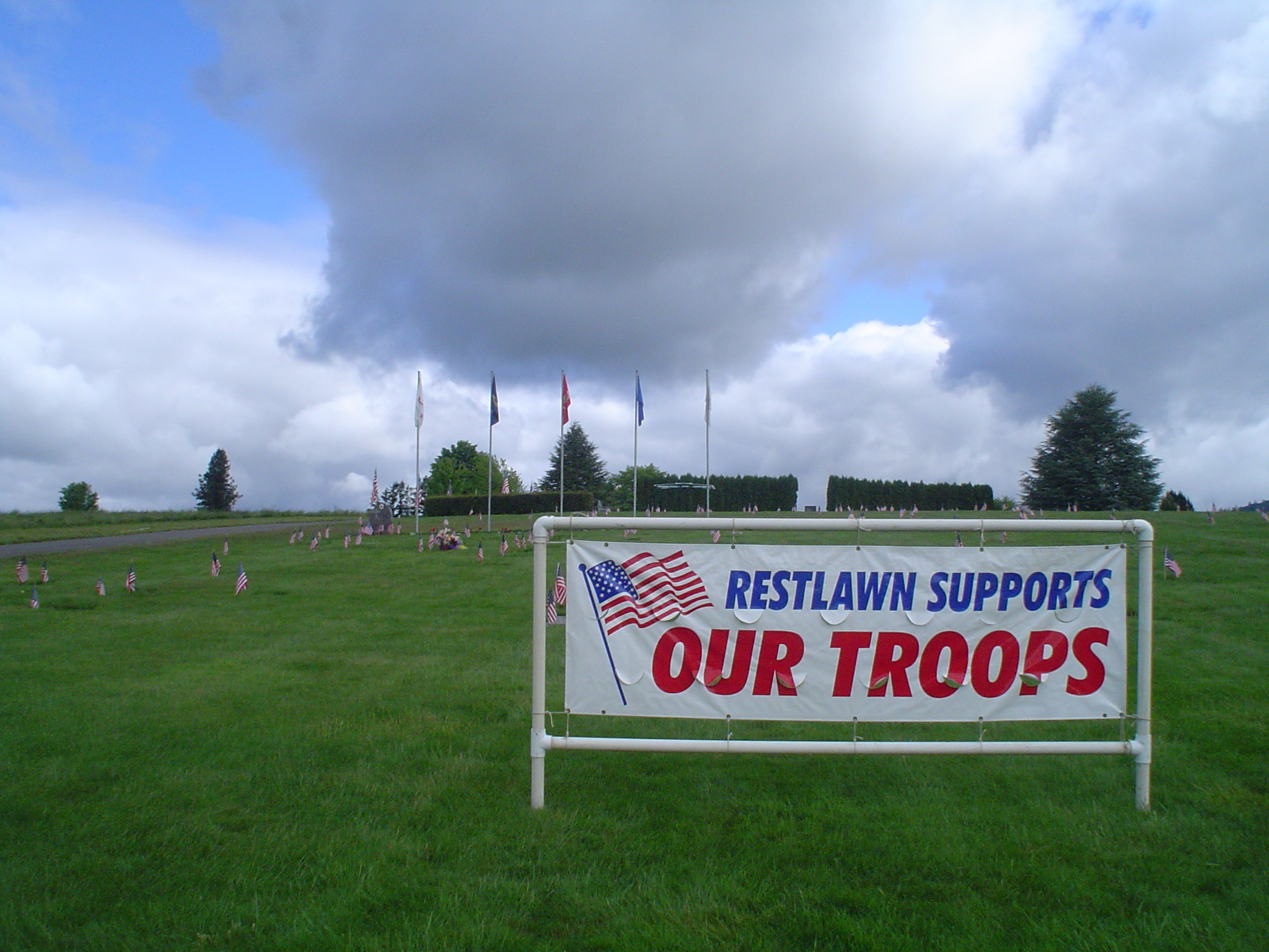 Picture was taken in early June, 2008, in Salem. Depicting "Support our troops" sign on cemetery lawn at Restlawn Cemetery. [1]